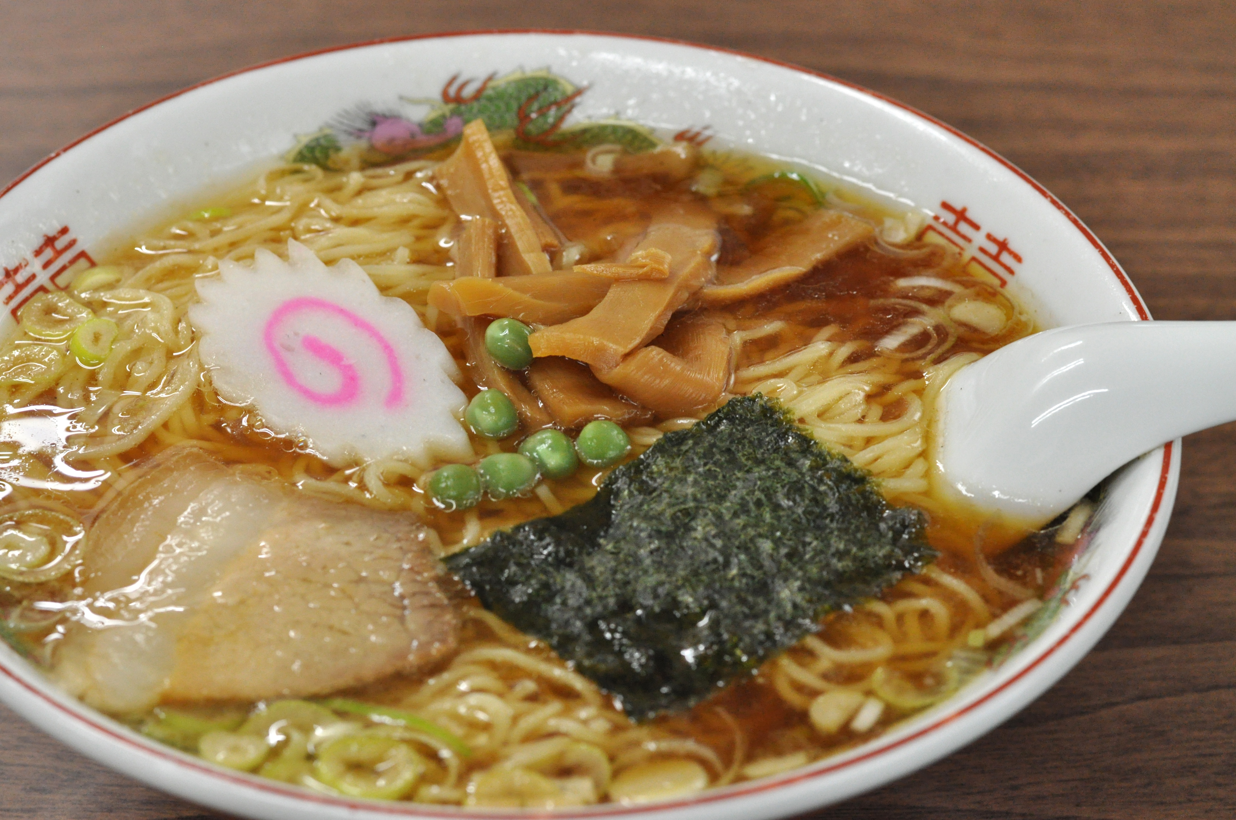 Traditional Ramen